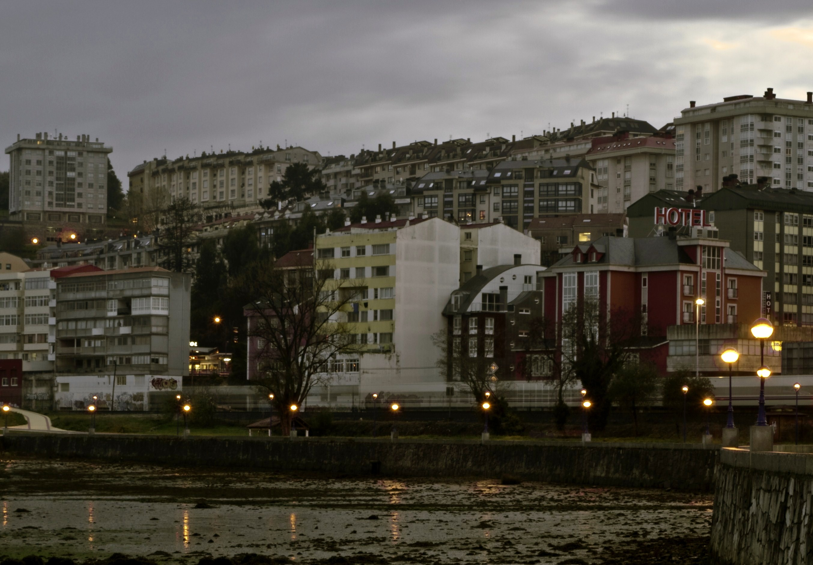 Parish of Rutis (Culleredo, Galicia)